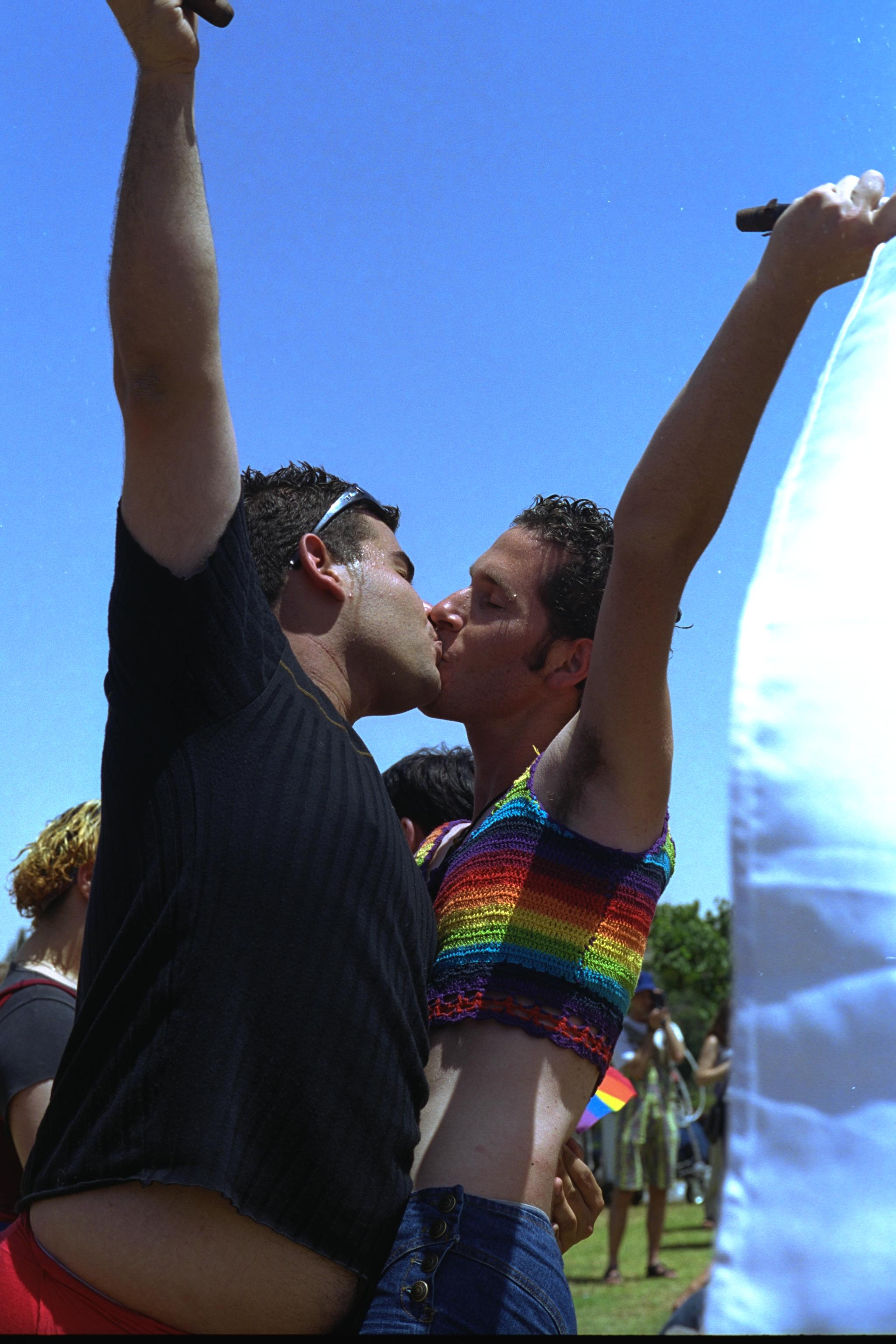 The pride parade of the israeli gay community in jerusalem. In photo, a gay couple at the independence garden (25/06/2004). מצעד הגאווה בירושלים. בתמונה: זוג גאה מתנשק בכיכר העצמאות בעיר. Photo: Moshe Milner (1946–) Alternative names Miylner, Moše; Milner, Mosheh; Moshé Milner; Milner, M.; Mîlner, Moše; Miylner, MošehDescriptionIsraeli photographerצלם ישראליDate of birth 1946 Location of birth Germany Authority control : Q28750411 VIAF: 100999744 ISNI: 0000 0001 0804 0507 LCCN: n82072104 GND: 115699732 BNF: 15548788n WorldCat creator QS:P170,Q28750411 .